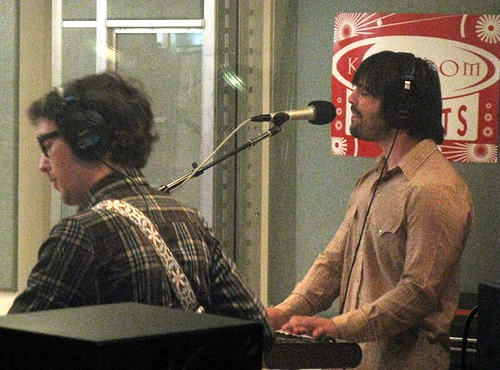 Division Day at KCRW, Santa Monica, 4.16.08